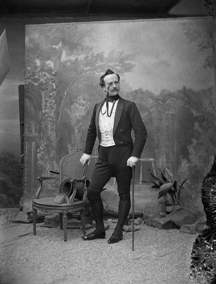 Portrait of Caran d'Ache.